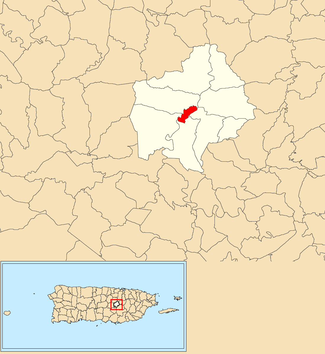 Comerío barrio-pueblo, Comerío, Puerto Rico locator map